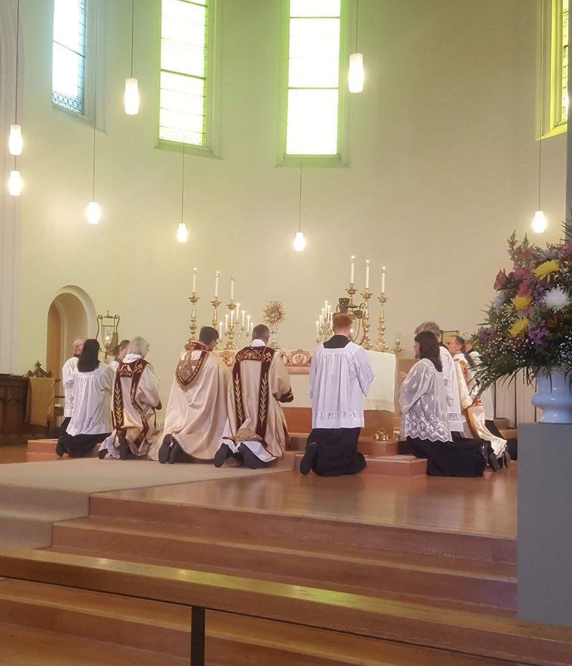 Benediction on the Feast of Corpus Christi at the Church of St. Mary Magdalene